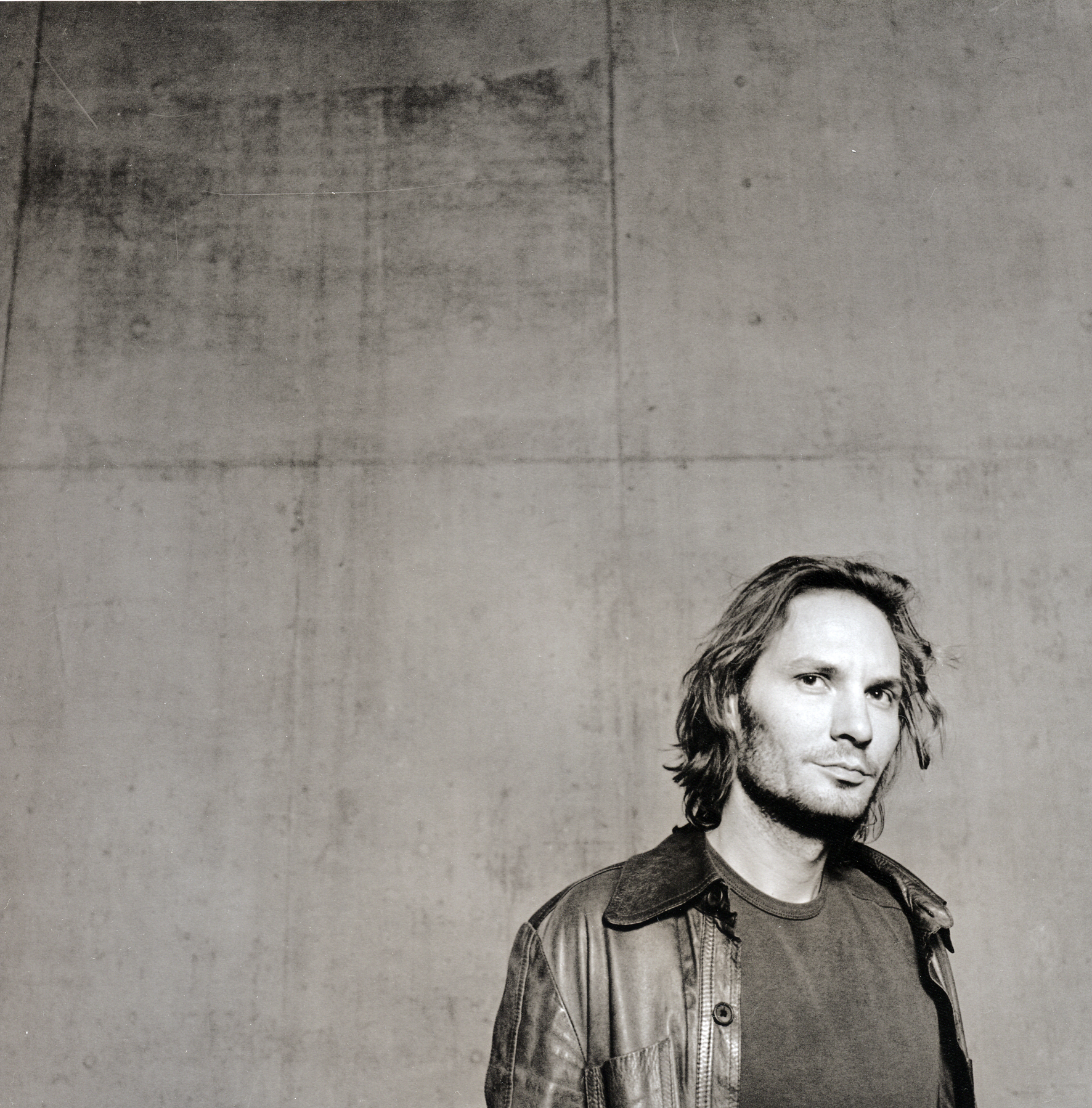 Sven Helbig